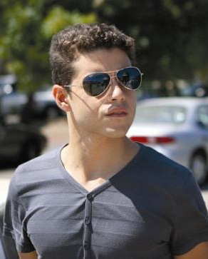 Actor Rami Malek visited Camp Pendleton in August 2007.